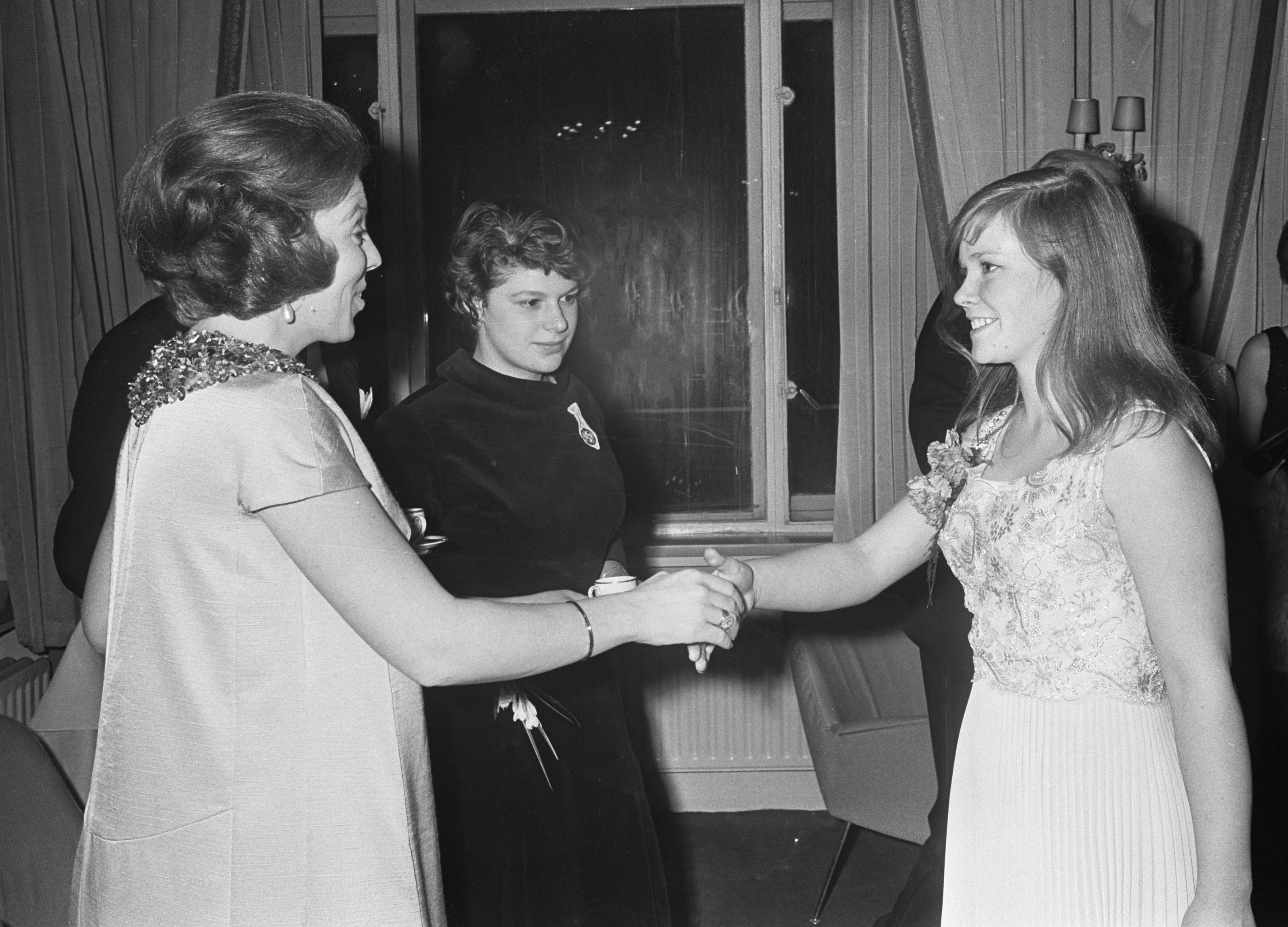 Emmy Verhey with Princes Beatrix after a Gala concert